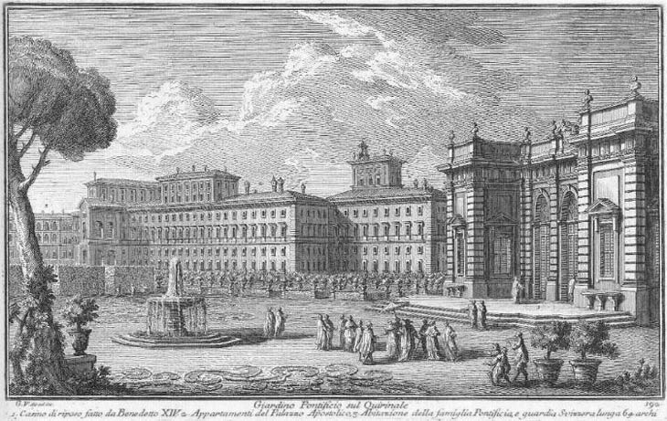 1) Casino (small palace) built by Pope Benedict XIV; 2) Papal Apartments; 3) Buildings for housing the servants and the Swiss Guard (Manica Lunga).